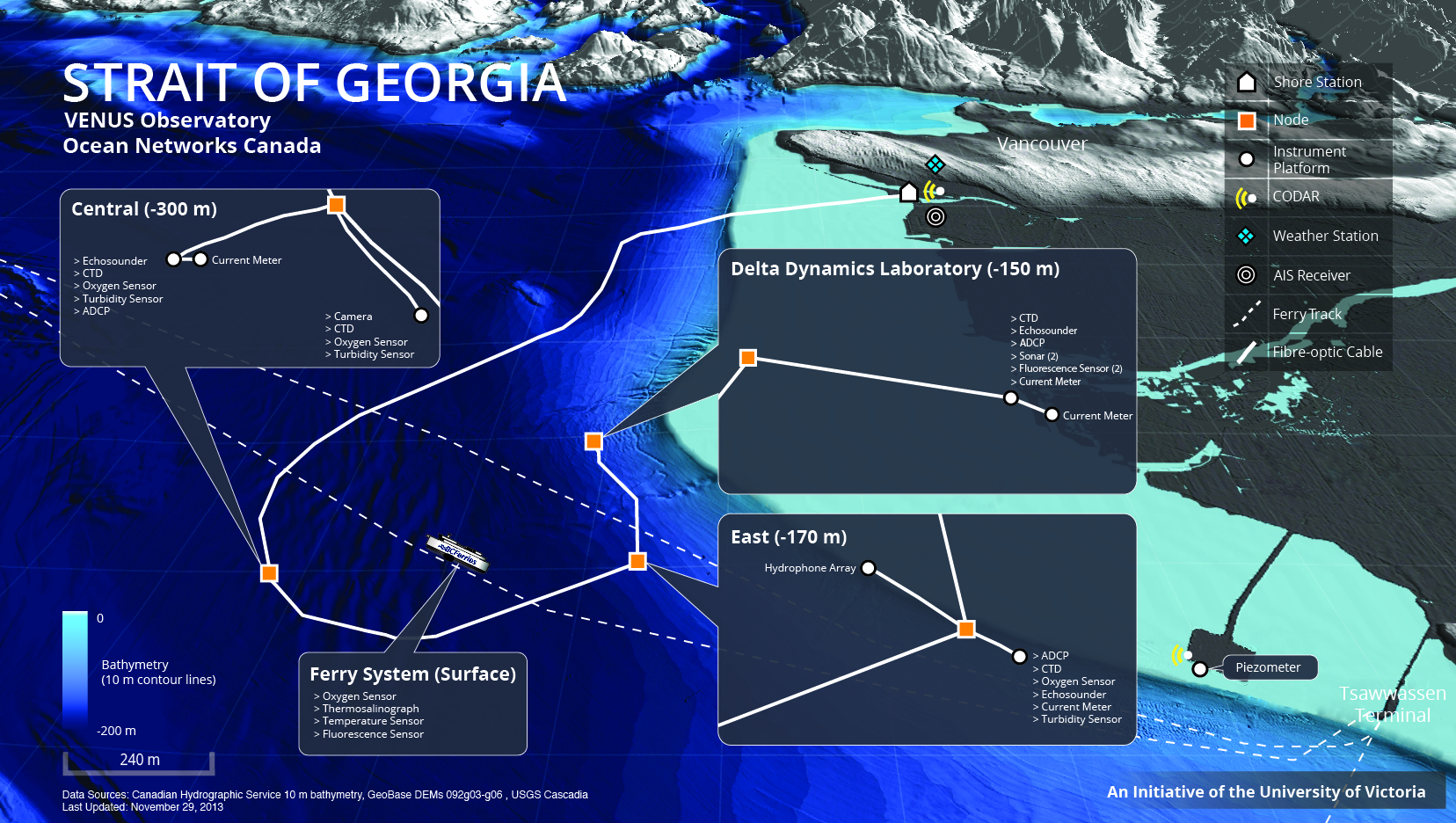 2013 map of Ocean Networks Canada's installations in the Salish Sea, which comprise the Strait of Georgia portion of the VENUS observatory.